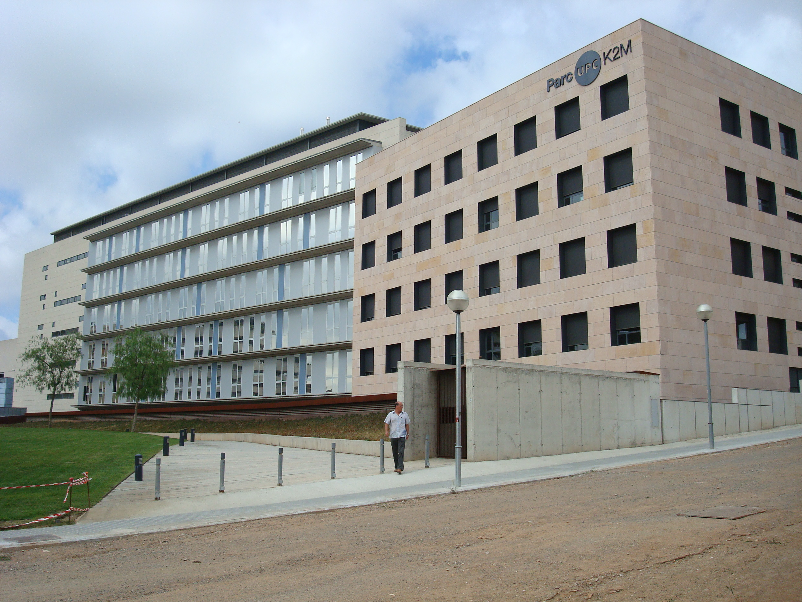 Omega's Building. Polytechnic University of Catalonia, Barcelona, Spain